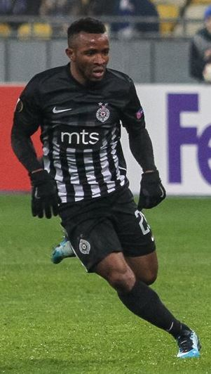 Seydouba Soumah playing for Partizan against Dynamo Kyiv in December 2017